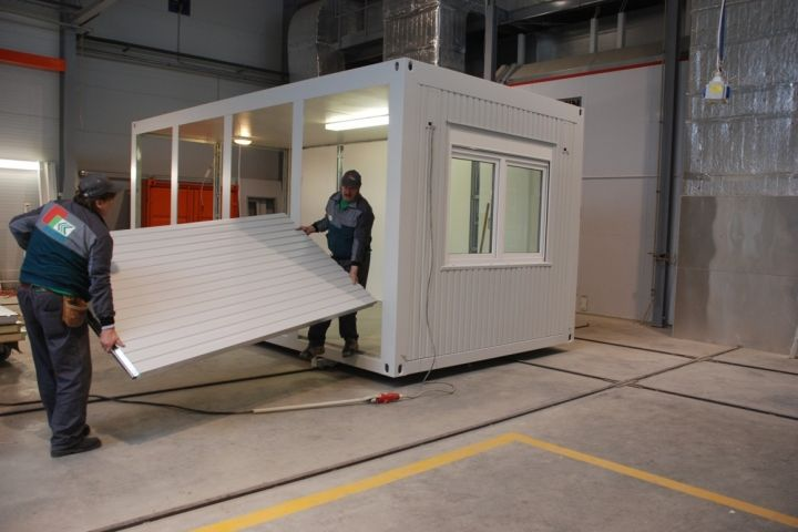 osazování modulárního objektu